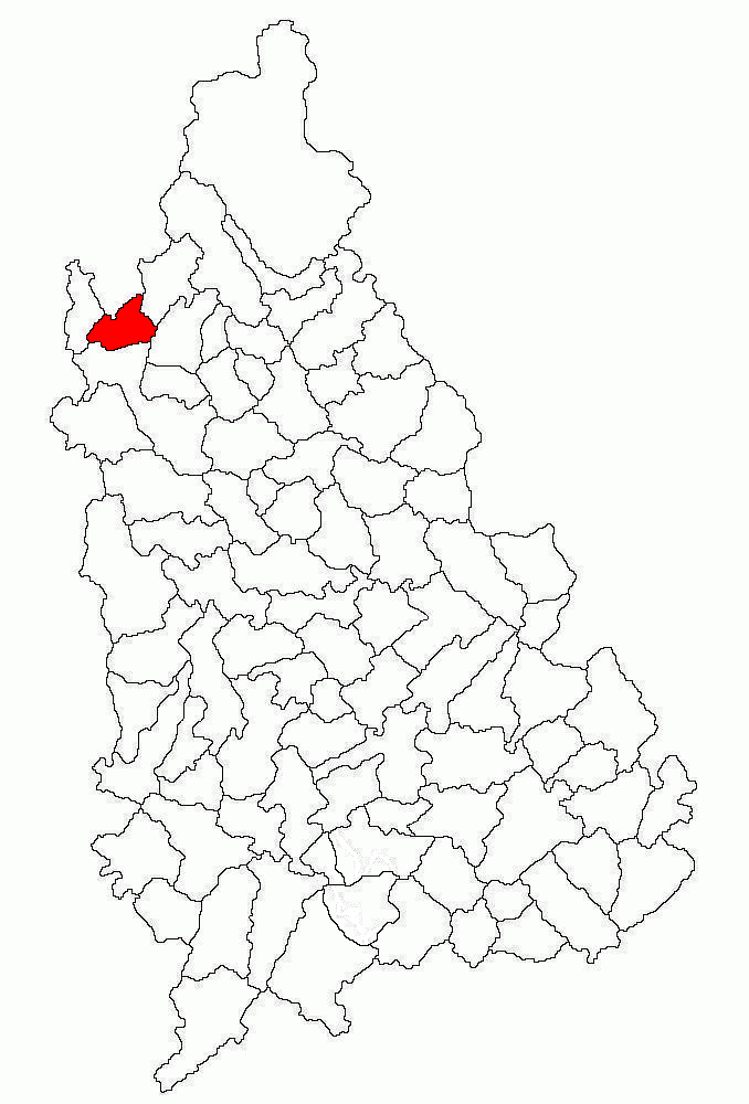 Locator map of Malu cu Flori Commune in Dâmbovița County, Romania